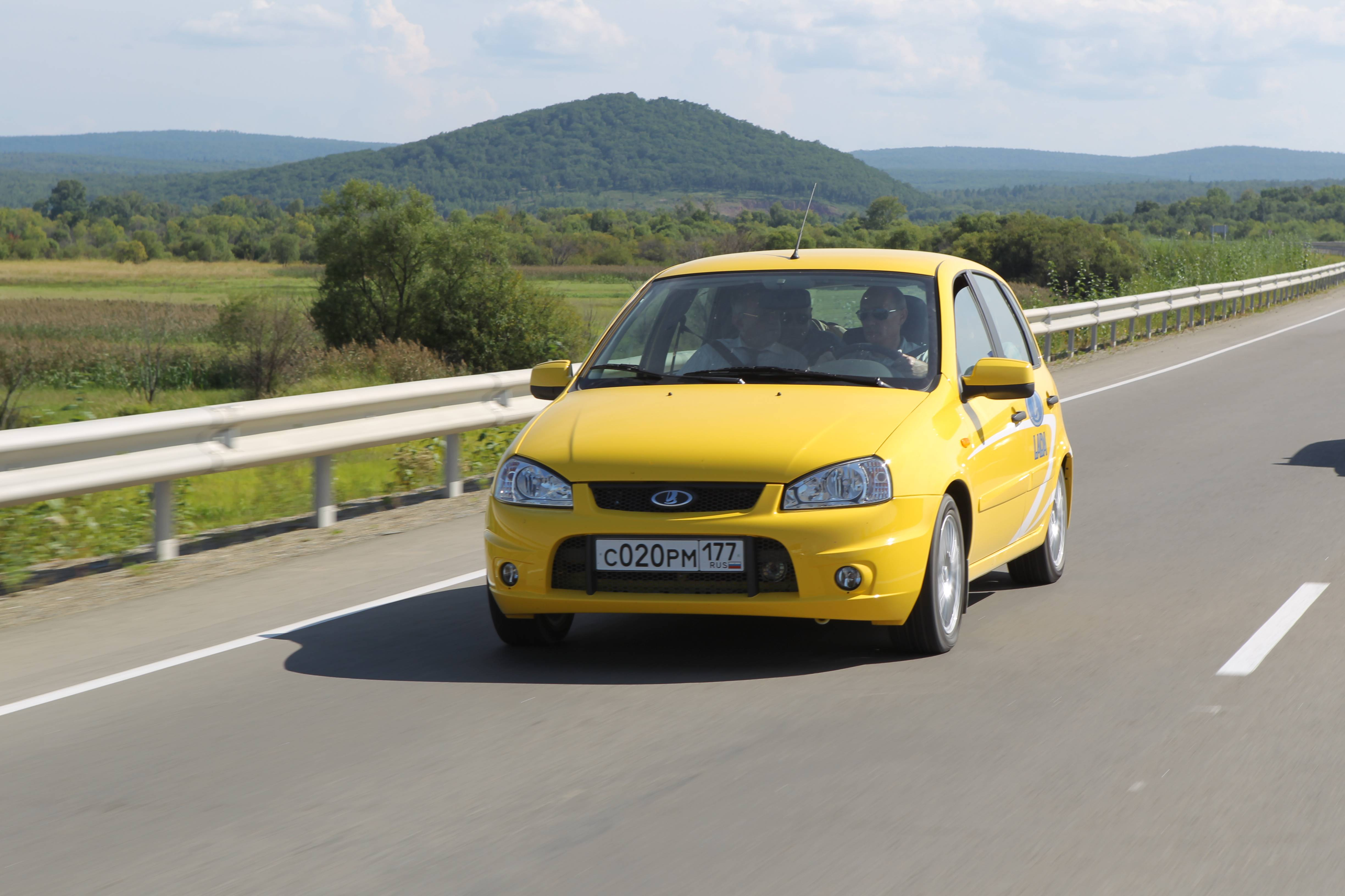 Putin drives a yellow Lada through the Amur Highway 1